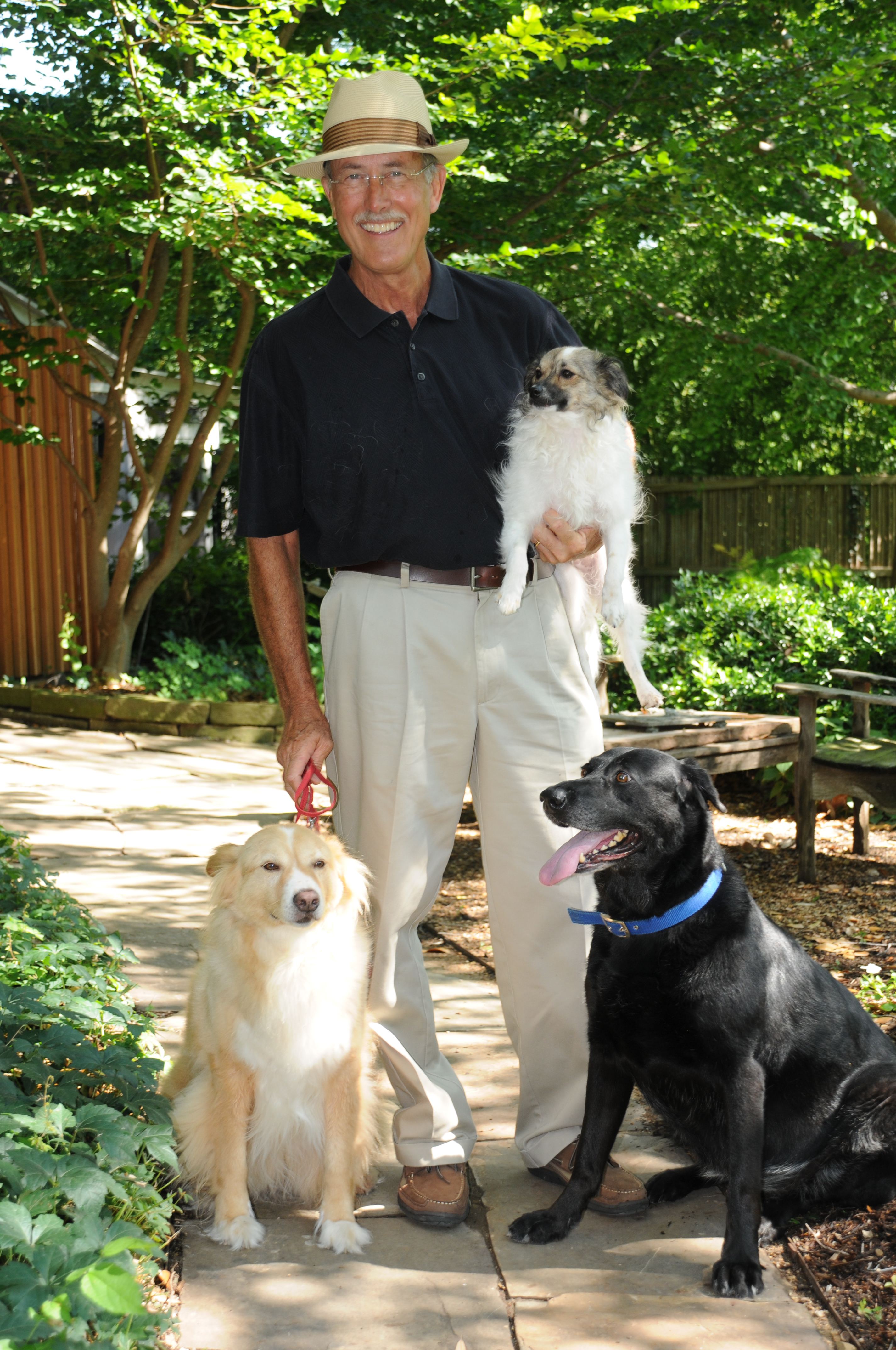 Howard Garrett with his rescued dogs. Hannah, Tater (held), Carmen.